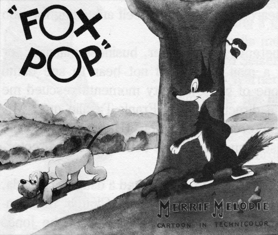 The lobby card for the American traditional animated short film Fox Pop, part of the Merrie Melodies series. Filipino: Ang lobi kard para sa Fox Pop, ang Amerikanong maikling pelikula ng tradisyonal animasyon, parte ng serye ng Merrie Melodies.